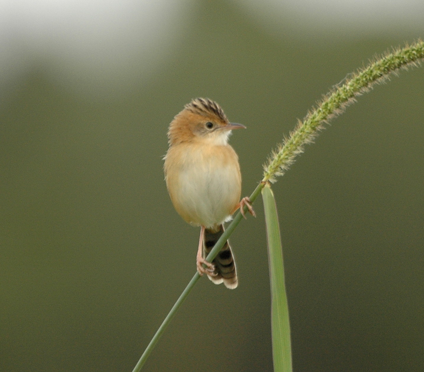 Golden-headed Cisticola (Cisticola exilis) Lake Samsonvale, SE Queensland, Australia